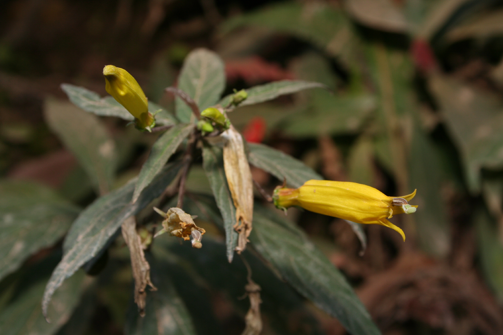 Lovely weedy roadside plant growing in Canyon Heredia outside Monteagudo, Bolivia. Very amenable to cultivation, though could perhaps become invasive in tropical or subtropical areas.